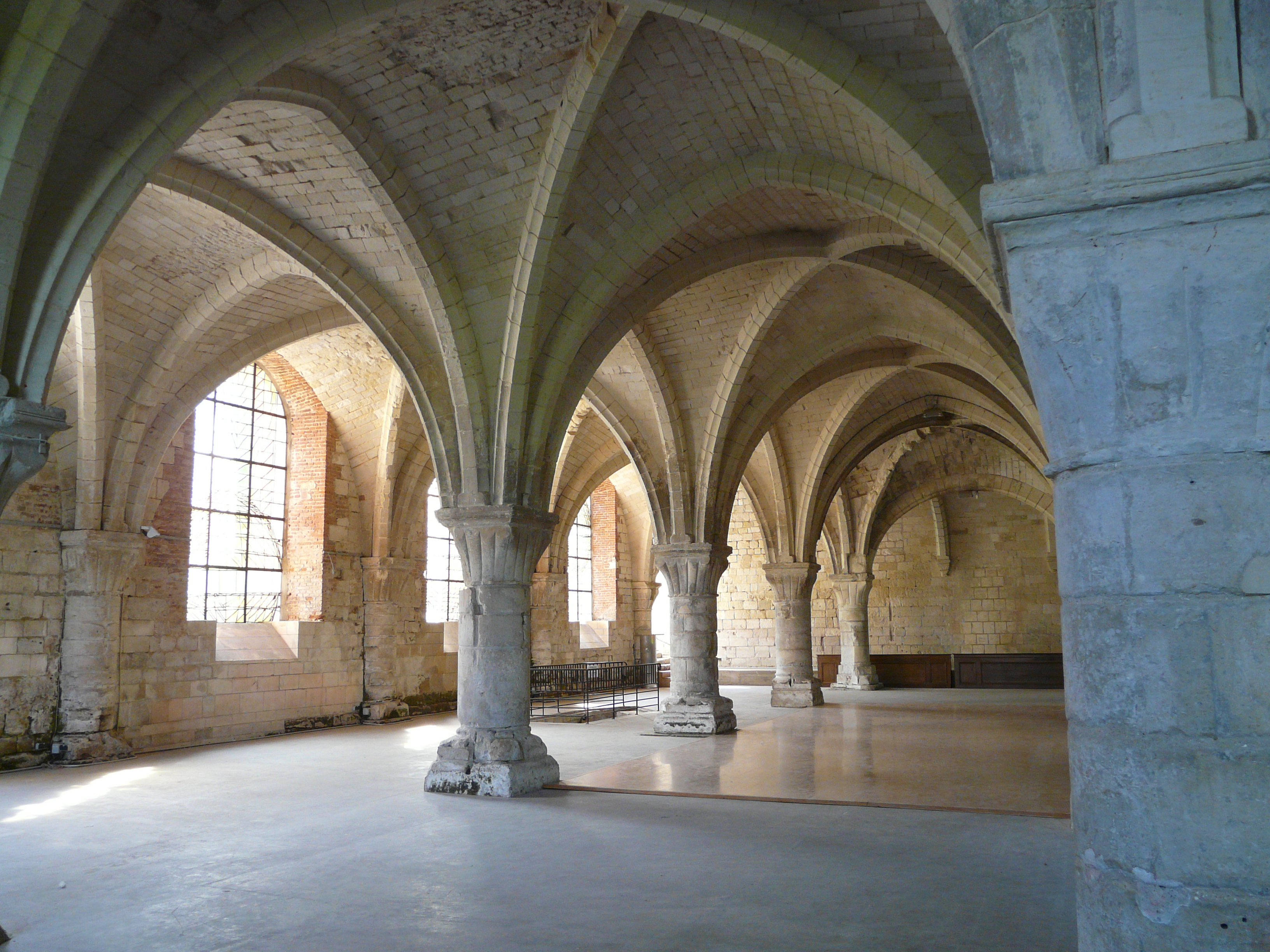 The "monks' hall" in Vaucelles abbey, in Les-Rues-des-Vignes, France